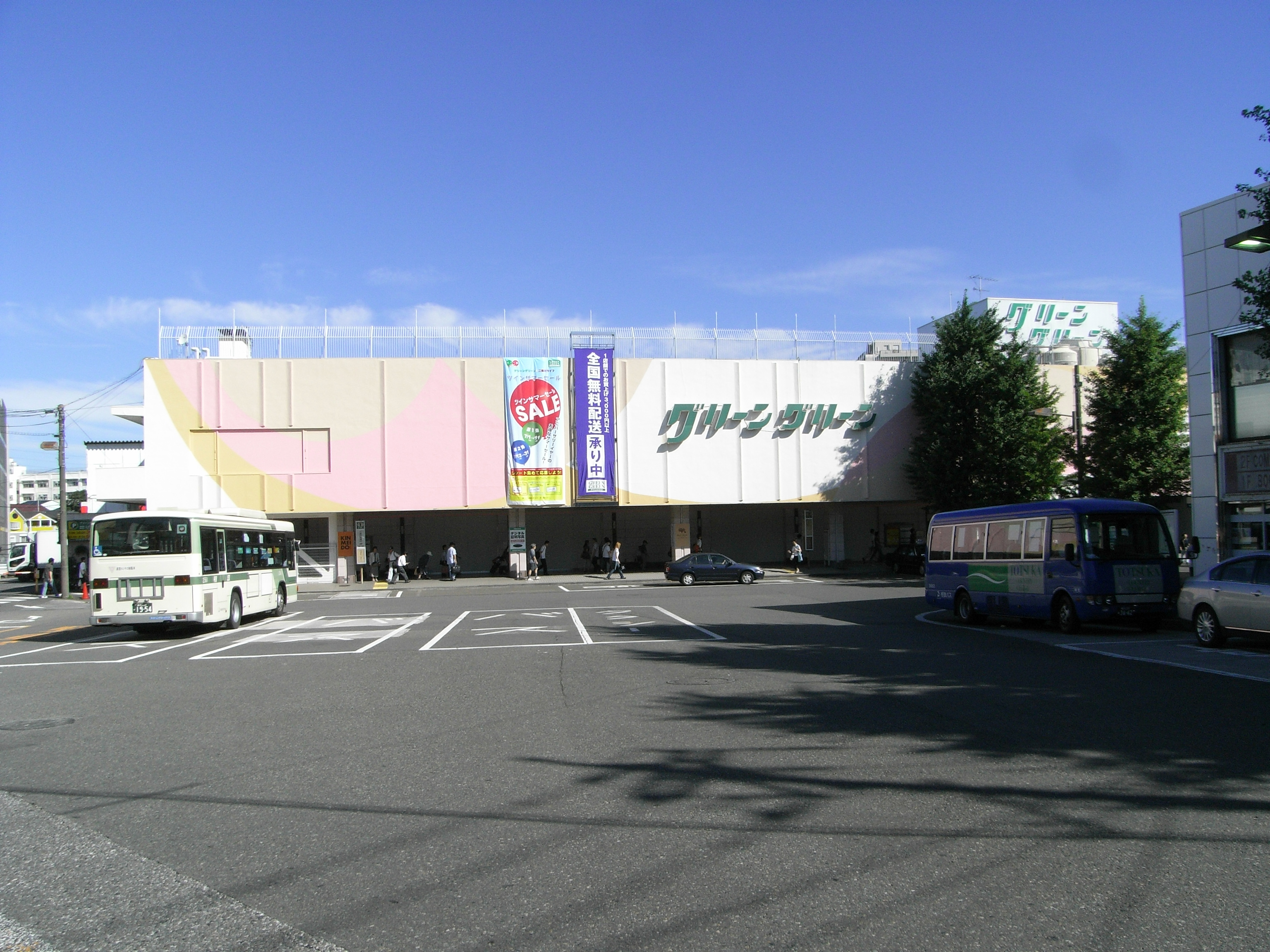 GreenGreen, Futamatagawa Station Building, Asahi-ku, Yokohama, Japan